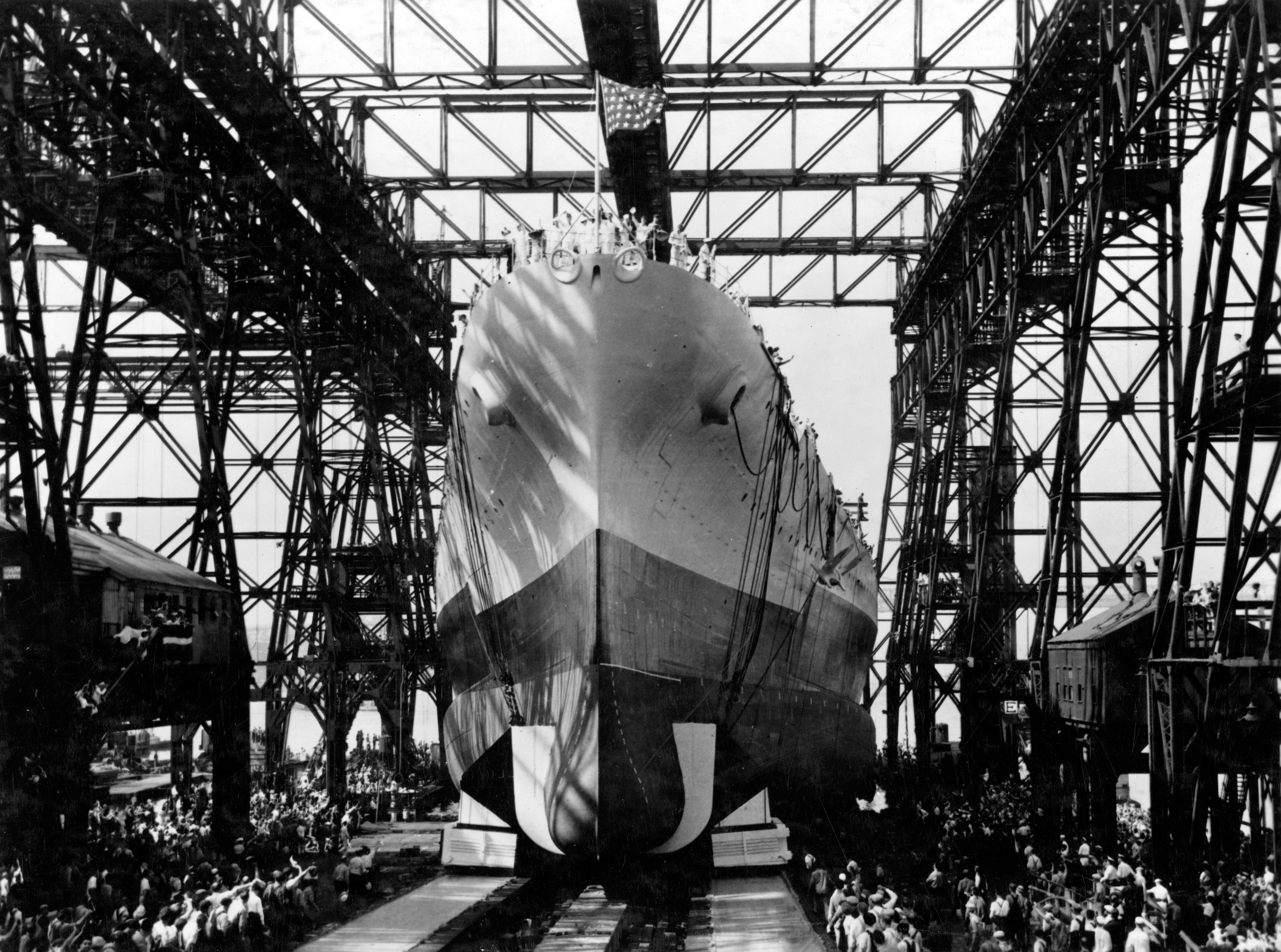 USS North Carolina (BB-55) slides down the building ways, as she is launched at the New York Navy Yard, 13 June 1940. Note the slope of her side armor, angled outward 15 degrees to increase its effective thickness against incoming enemy shells.